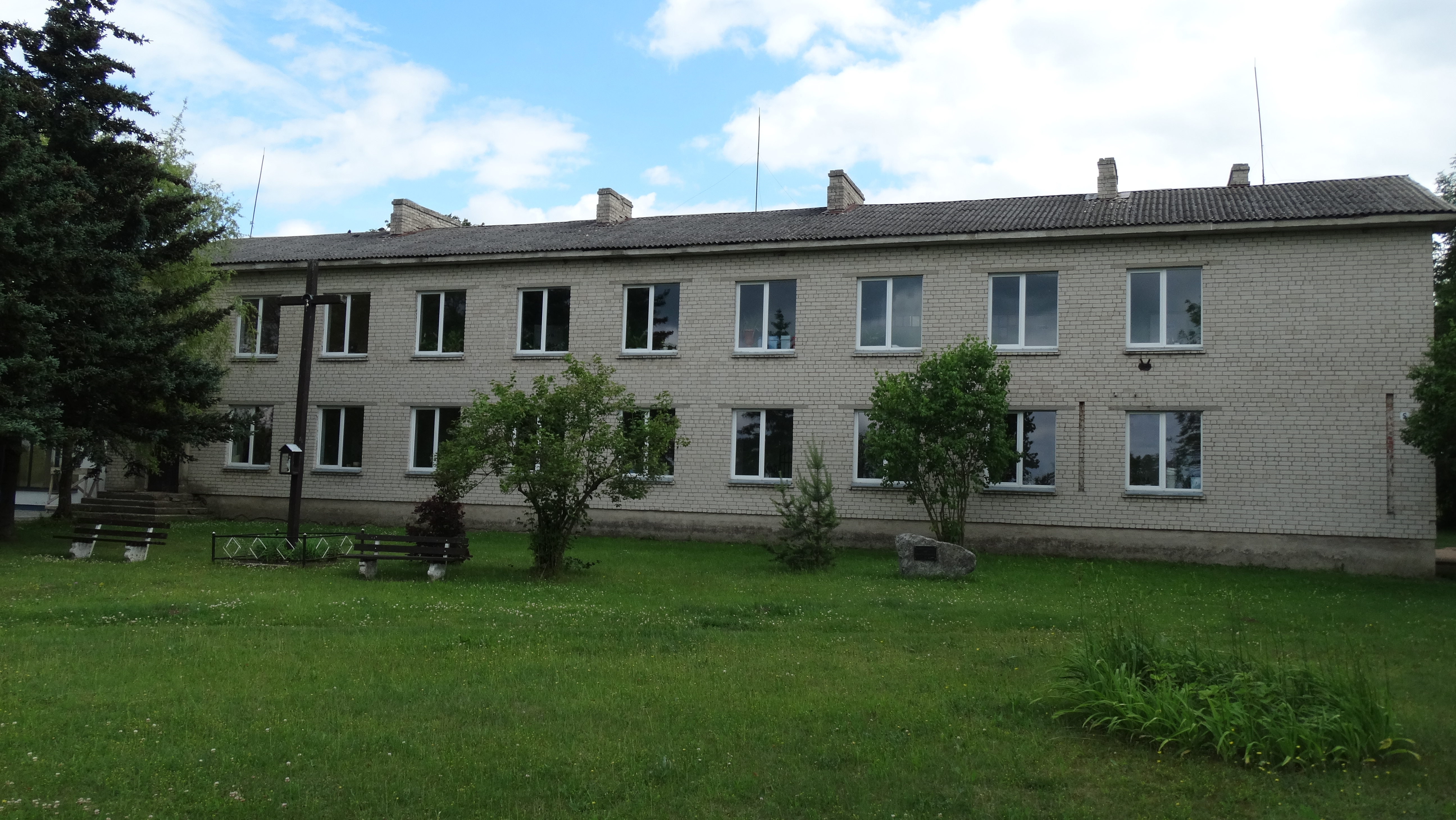 Basic school, Barskūnai, Širvintos District, Lithuania